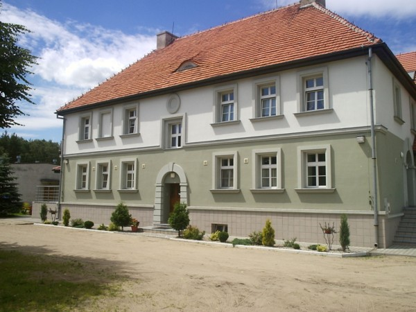 Zaborówiec, Poland